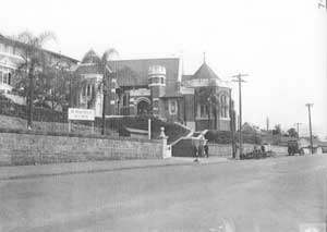 A WWII Communication Centre at Somerville House, circa 1943.